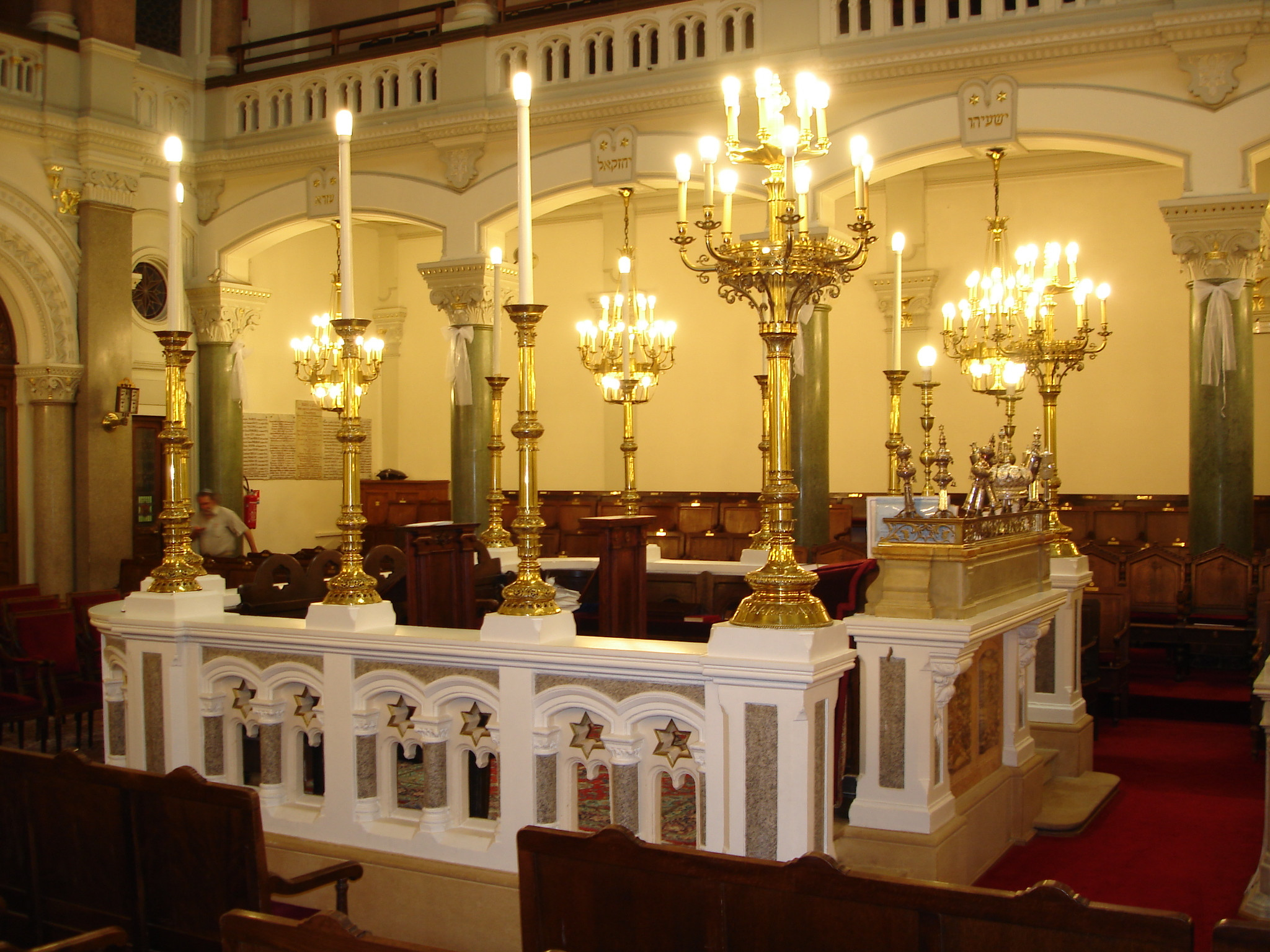 Synagogue Buffault (Paris)Bimah